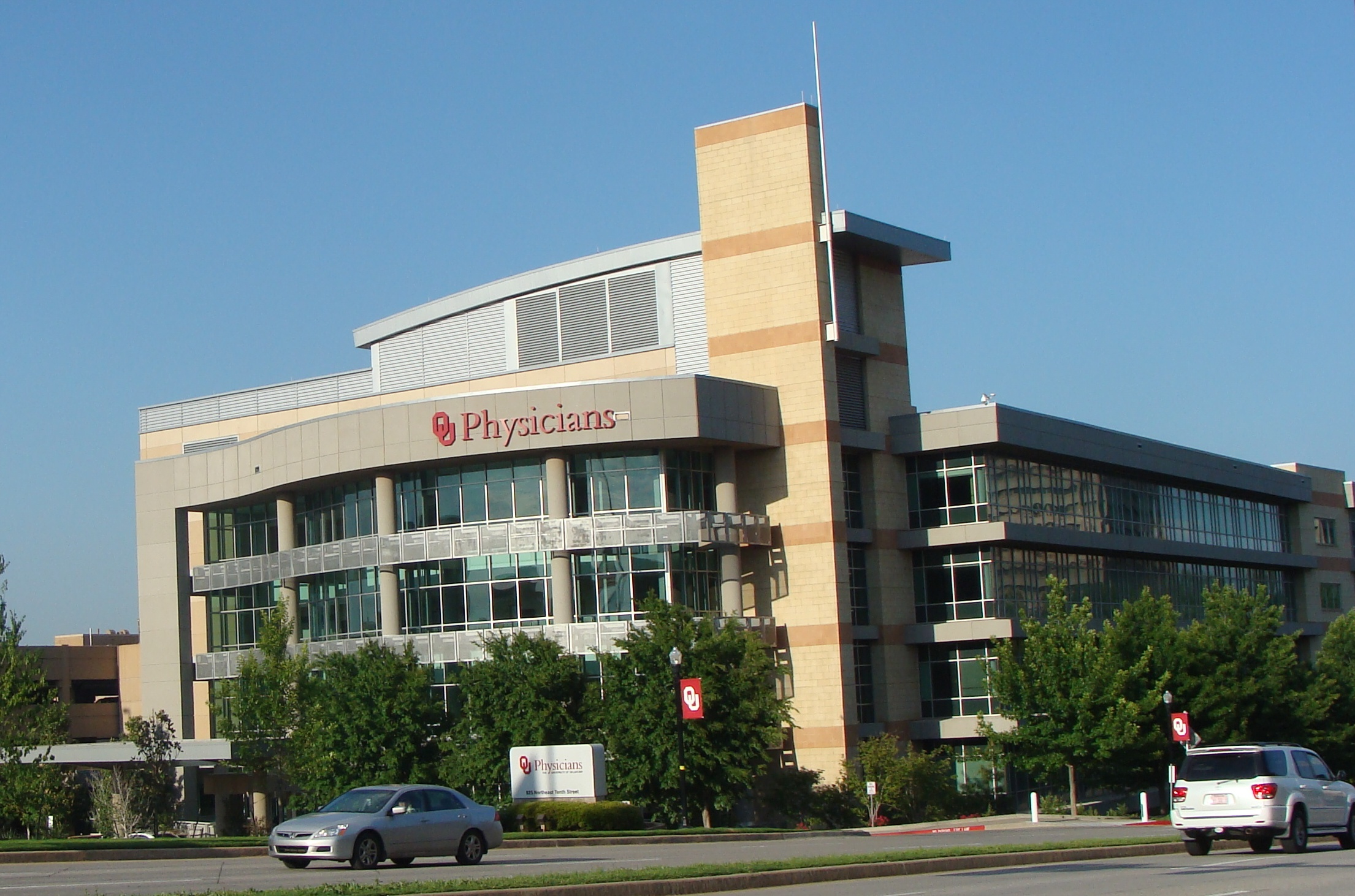 OU Physicians Bldg, University of Oklahoma Health Science Center, Oklahoma City, OKL.